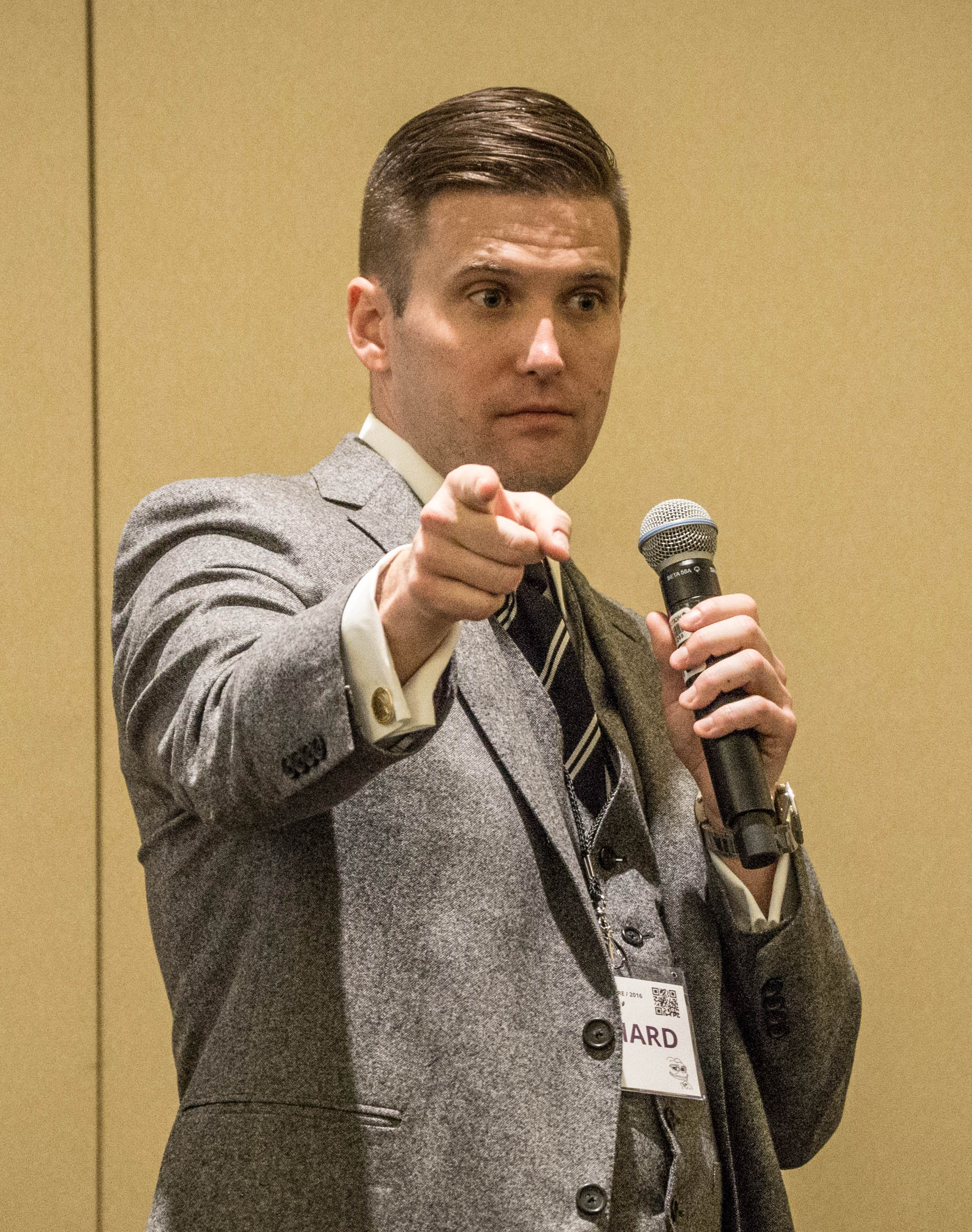 Richard Bertrand Spencer (born May 11, 1978) is an American white nationalist, known for promoting white supremacist views. He is president of the National Policy Institute, a white nationalist think-tank, and Washington Summit Publishers, an independent publishing firm. Spencer has stated that he rejects the description of white supremacist, and describes himself as an identitarian. He advocates for a white homeland for a "dispossessed white race" and calls for "peaceful ethnic cleansing" to halt the "deconstruction" of European culture.